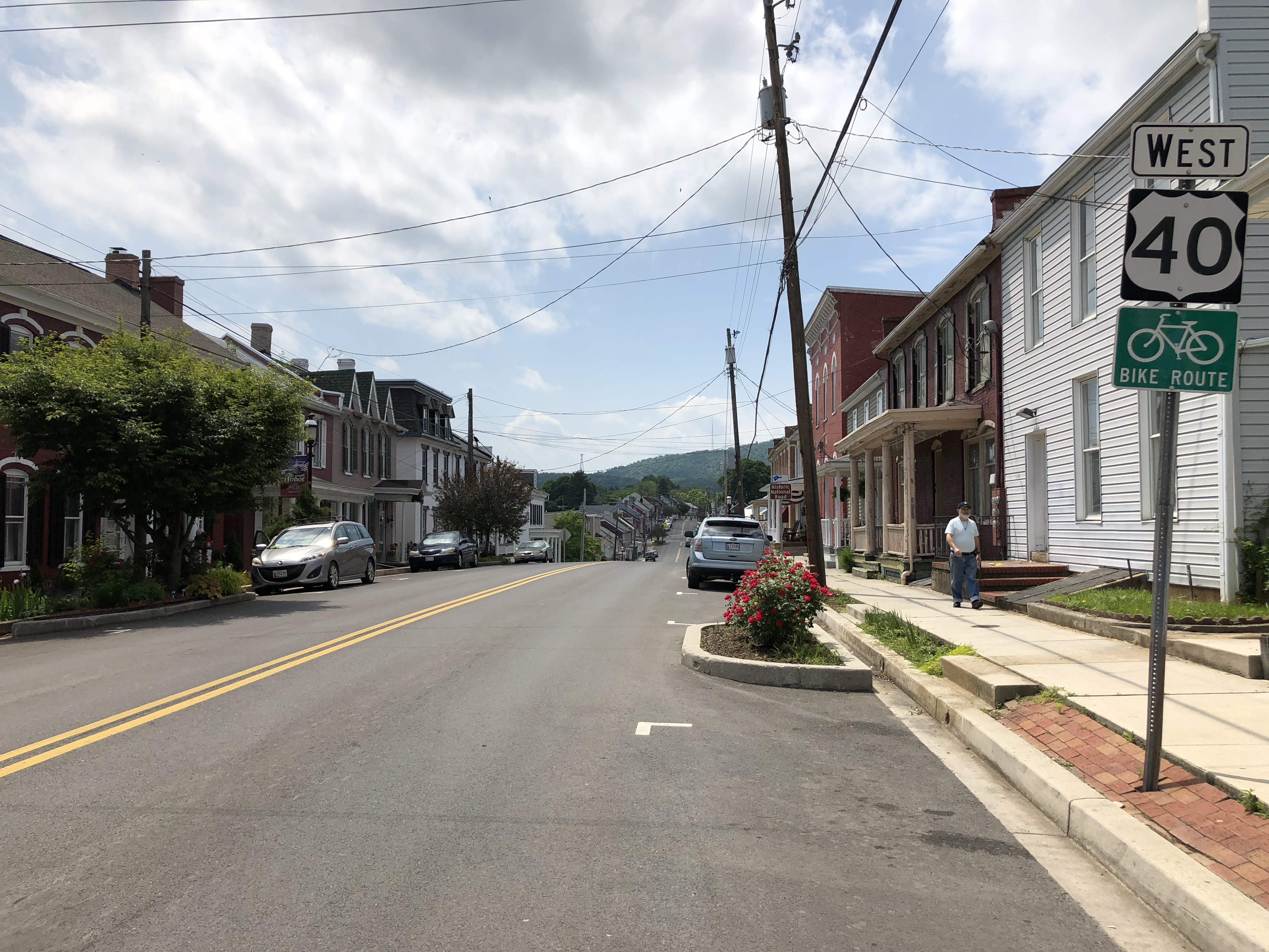 View west along U.S. Route 40 (Cumberland Street) at Maryland State Route 68 (Mill Street) in Clear Spring, Washington County, Maryland